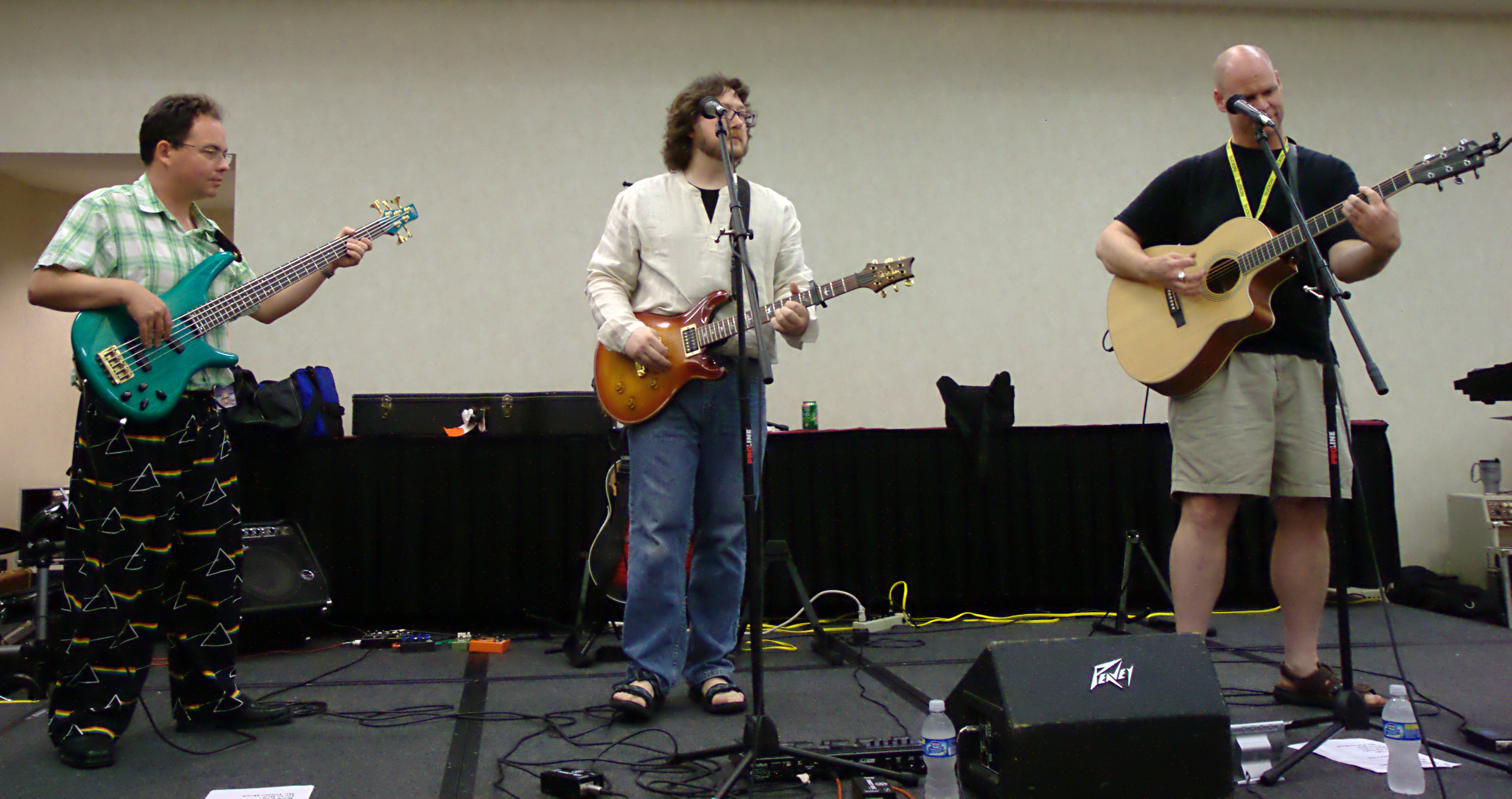 Ookla the Mok, performing at DucKon2008 in Naperville, IL, USA